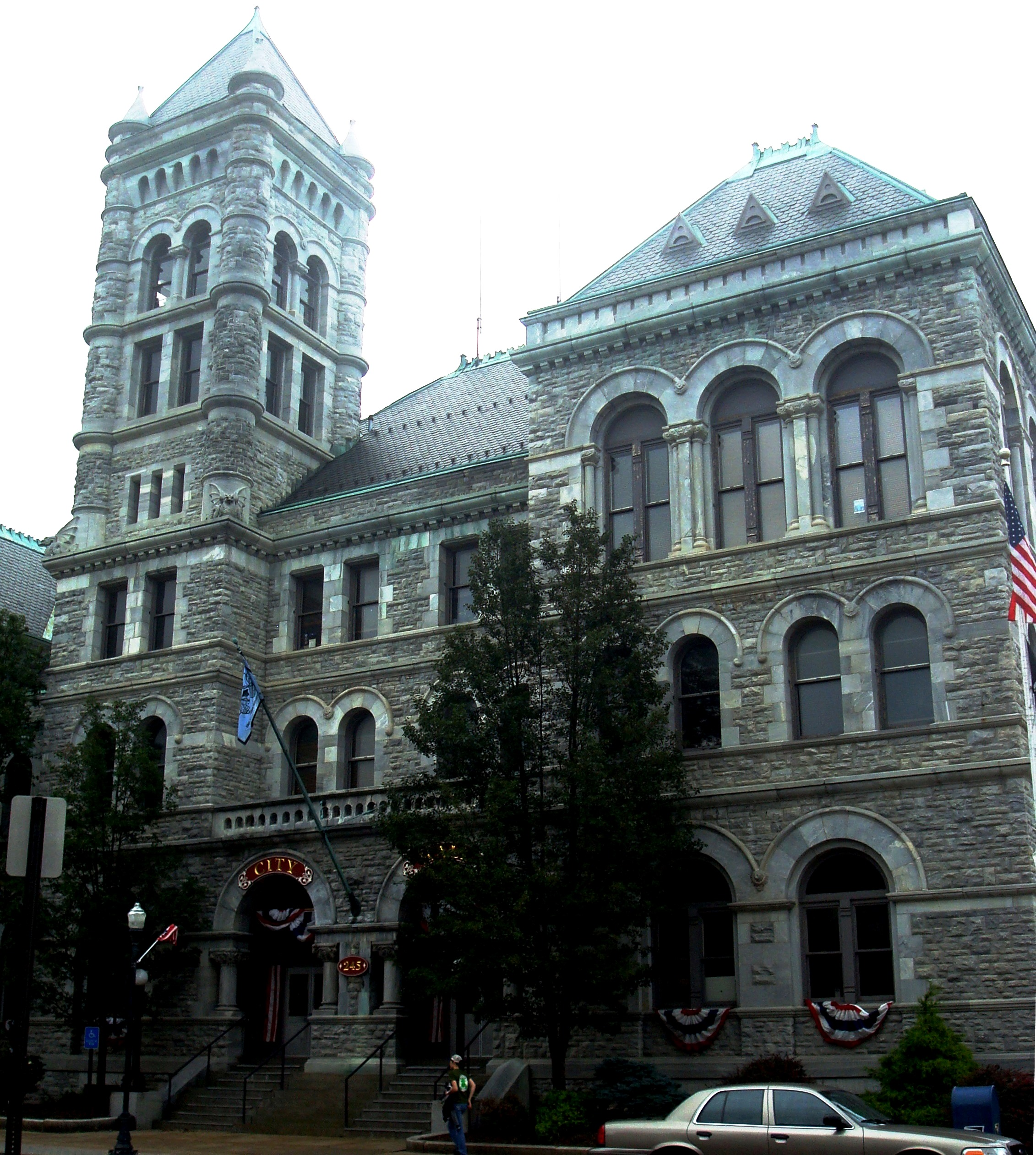 The historic building at 245 West 4th Street between Government Place and West Street in Williamsport, Pennsylvania was built in 1888-91 as a United States Post Office, and was designed by William A. Freret, head of the U.S. Treasury Department's Office of the Supervising Architect. It is now the Williamsport City Hall.